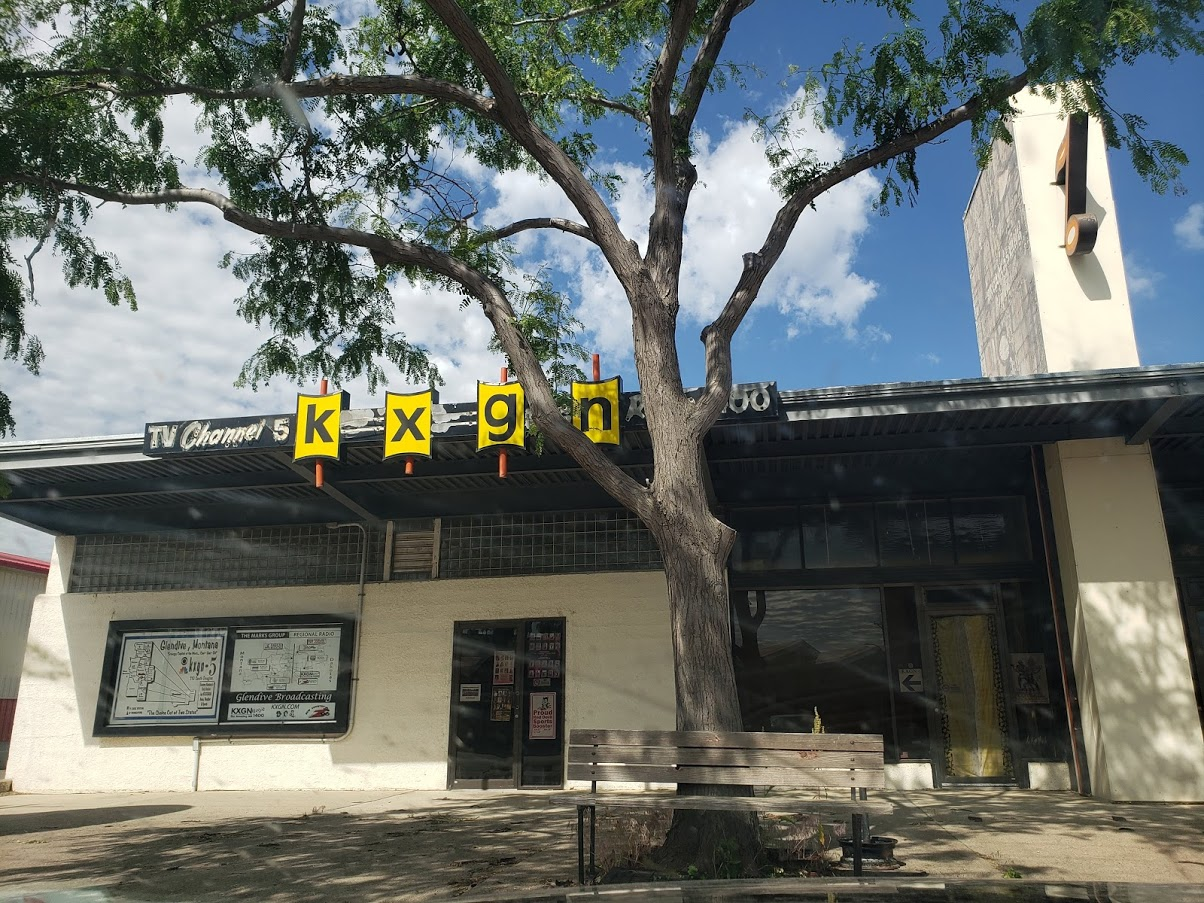 Studio for KXGN-TV in Glendive, MT